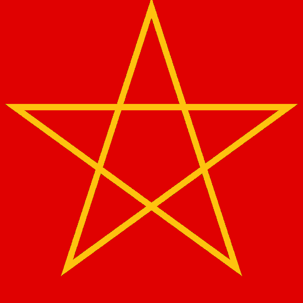 Gold pentagram/pentangle on red background